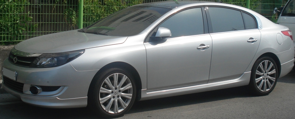 Renault Samsung New SM5